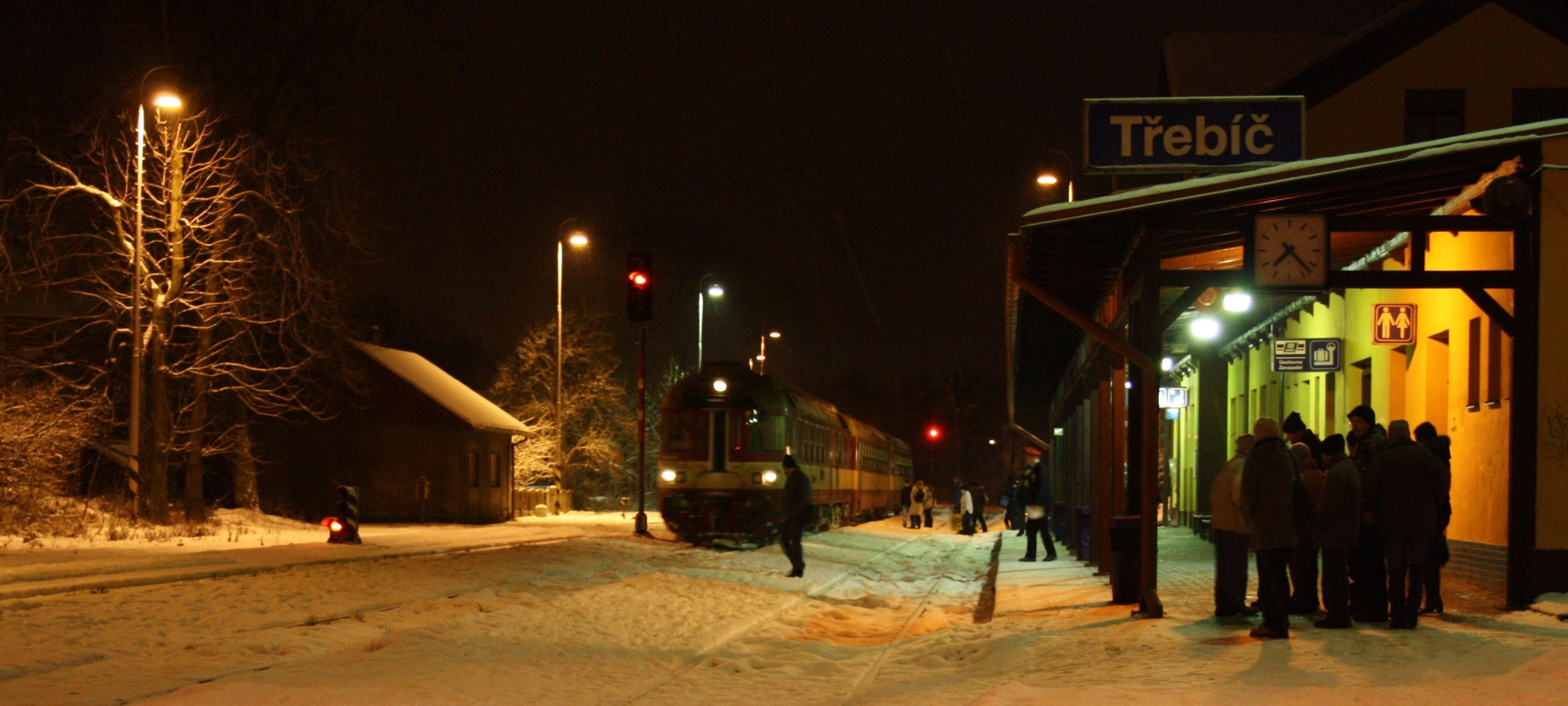 Train station with arriving train at evening in Třebíč, Czech Republic.jpg